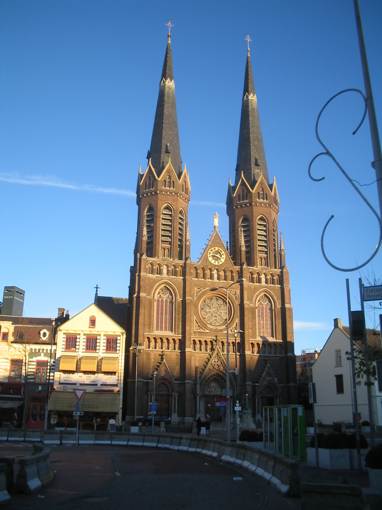 Tilburg, Heuvelse Kerk (Sint-Jozefparochie), Hendrik van Tulder